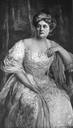 "Life-size Aquarelle Portrait of Mrs. James J. Clarkson", by Elizabeth Gowdy Baker